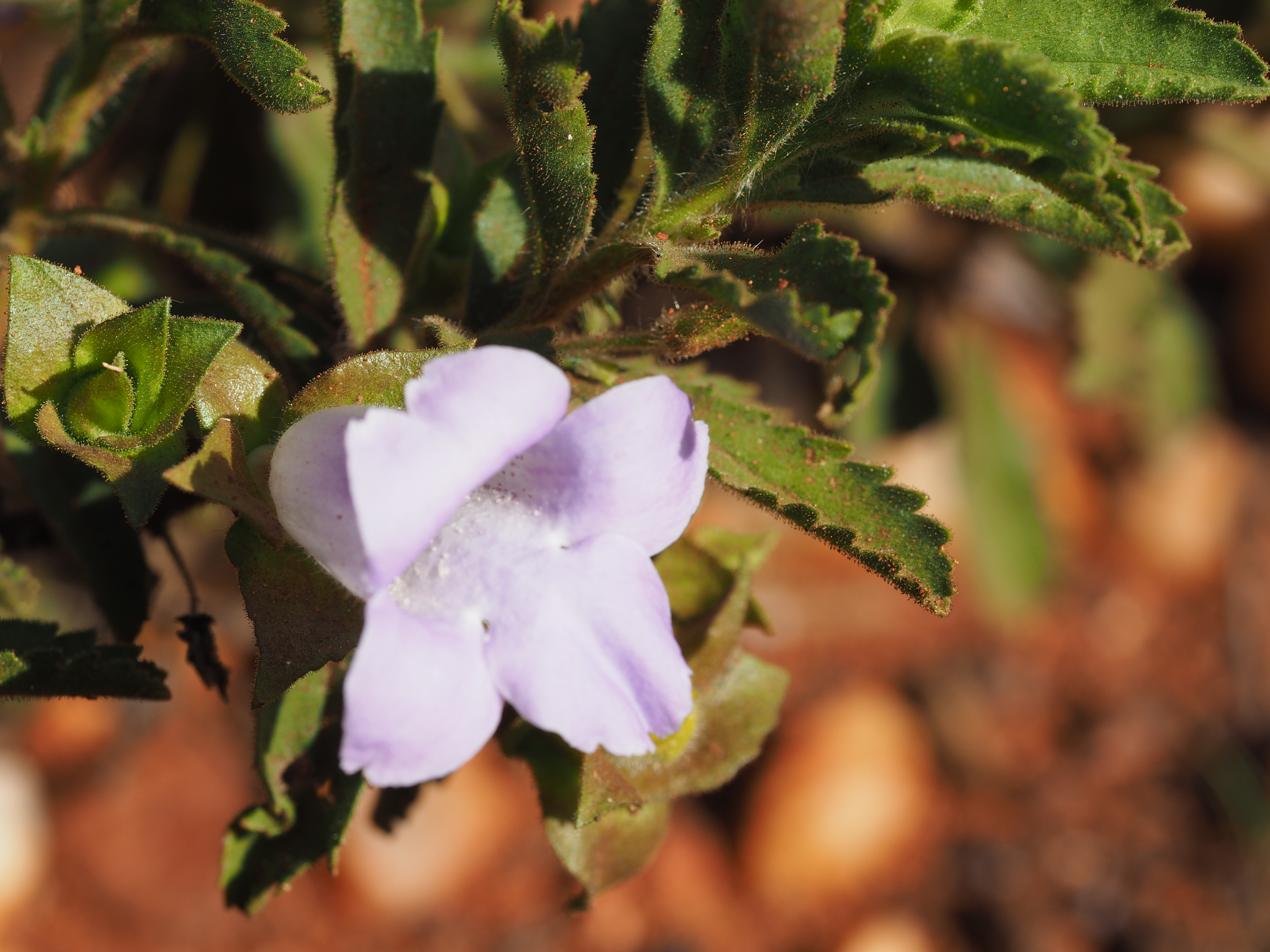 Eremophila canaliculata growing 30 km south of Newman